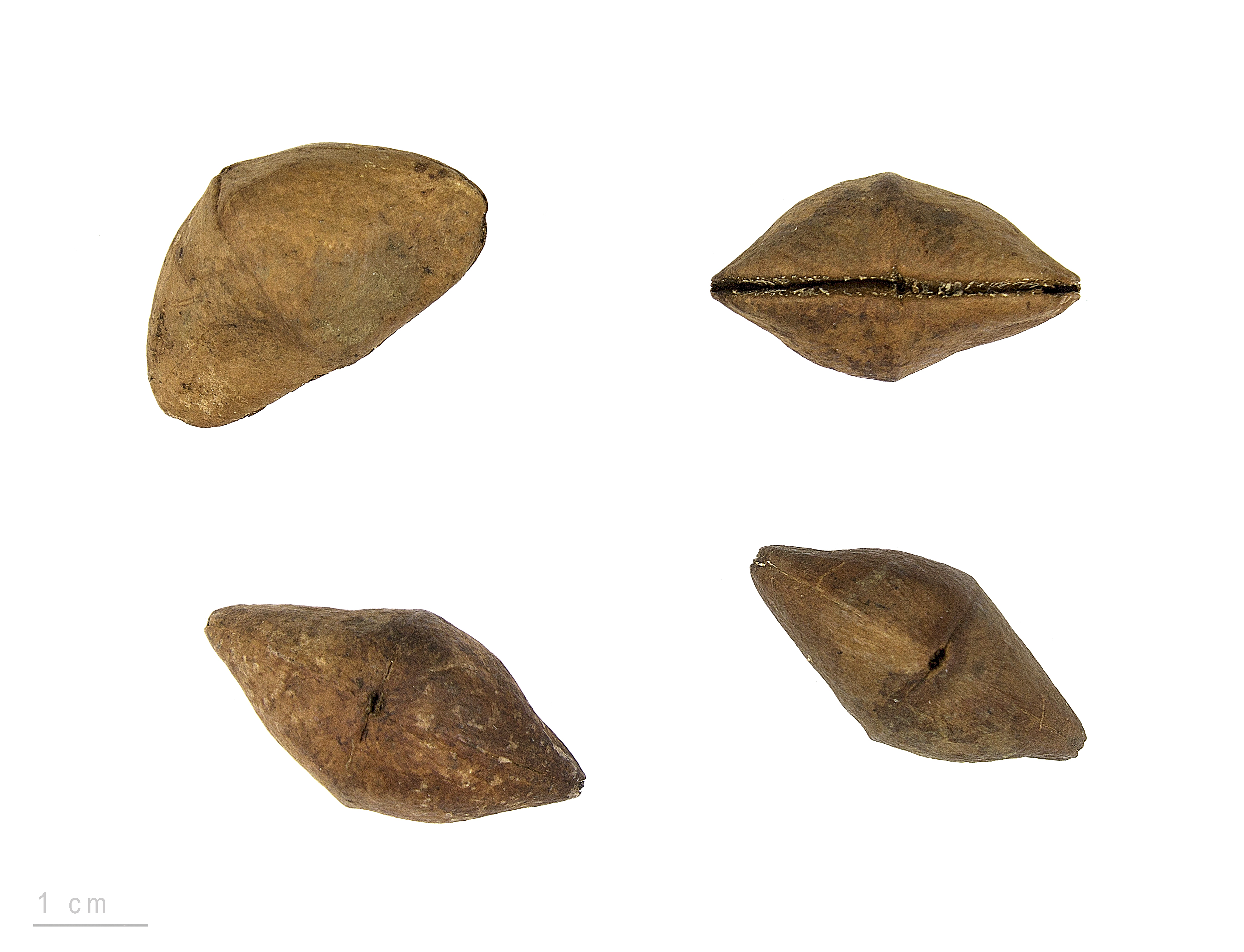 Thevetia peruviana, seeds